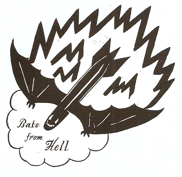 Scanned from *Millstein, Jeff. (1995). United States Marine Corps Aviation Squadron Unit Insignia, 1941 - 1946. Turner Publishing Company. ISBN 1-56311-211-6.